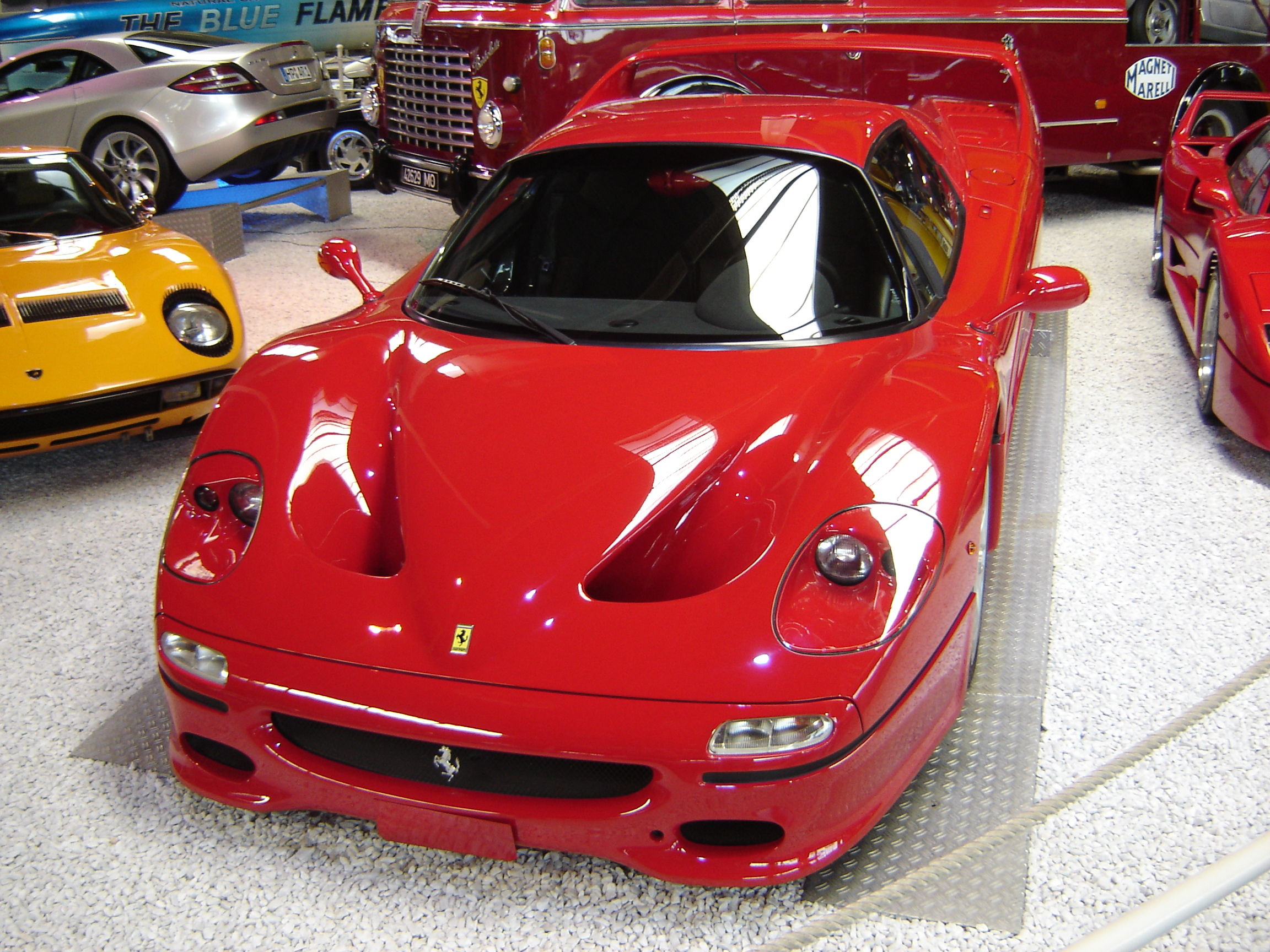 Ferrari F50 in Sinsheim Technical Museum